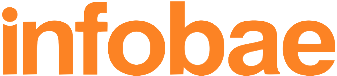 Logo of Argentine digital newspaper